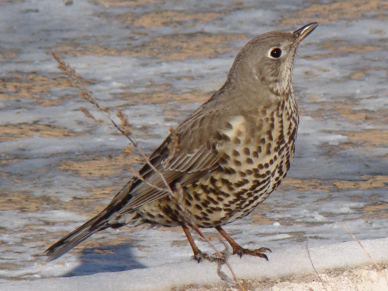 Turdus viscivorus in Baikonur-town, Kazakhstan